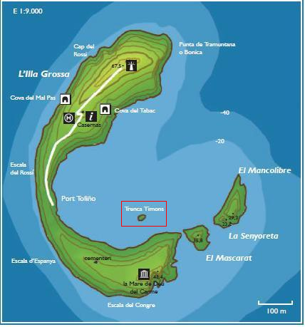 Trenca Timons small barren island which lies in the Bay of Illa Grossa of the Columbretes Islands